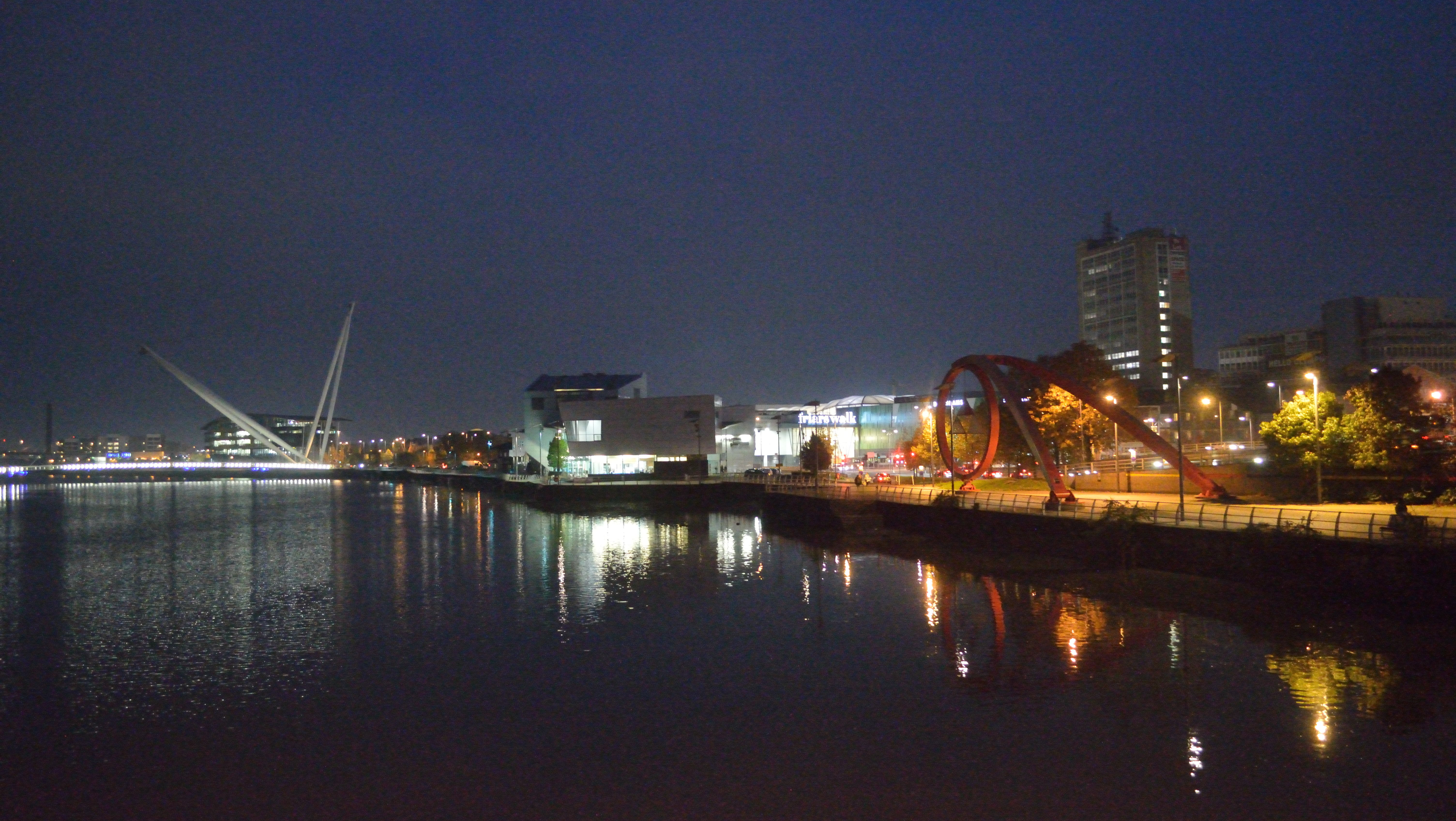 Bristol Packet Wharf area of Newport, on the River Usk, at dusk. Structures shown left to right: Newport City footbridge, Riverfront arts centre, Steel Wave public art structure. A Friars Walk shopping centre entrance and Chartist Tower can be seen behind the riverside frontage. Photo was taken from Newport Bridge.